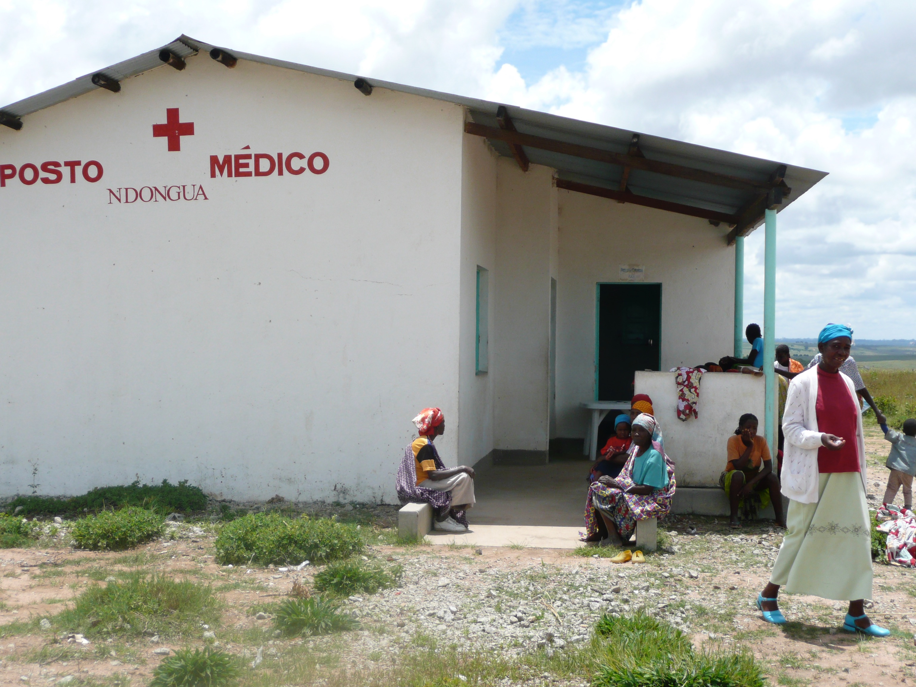 Medical post in Huambo Province, Angola